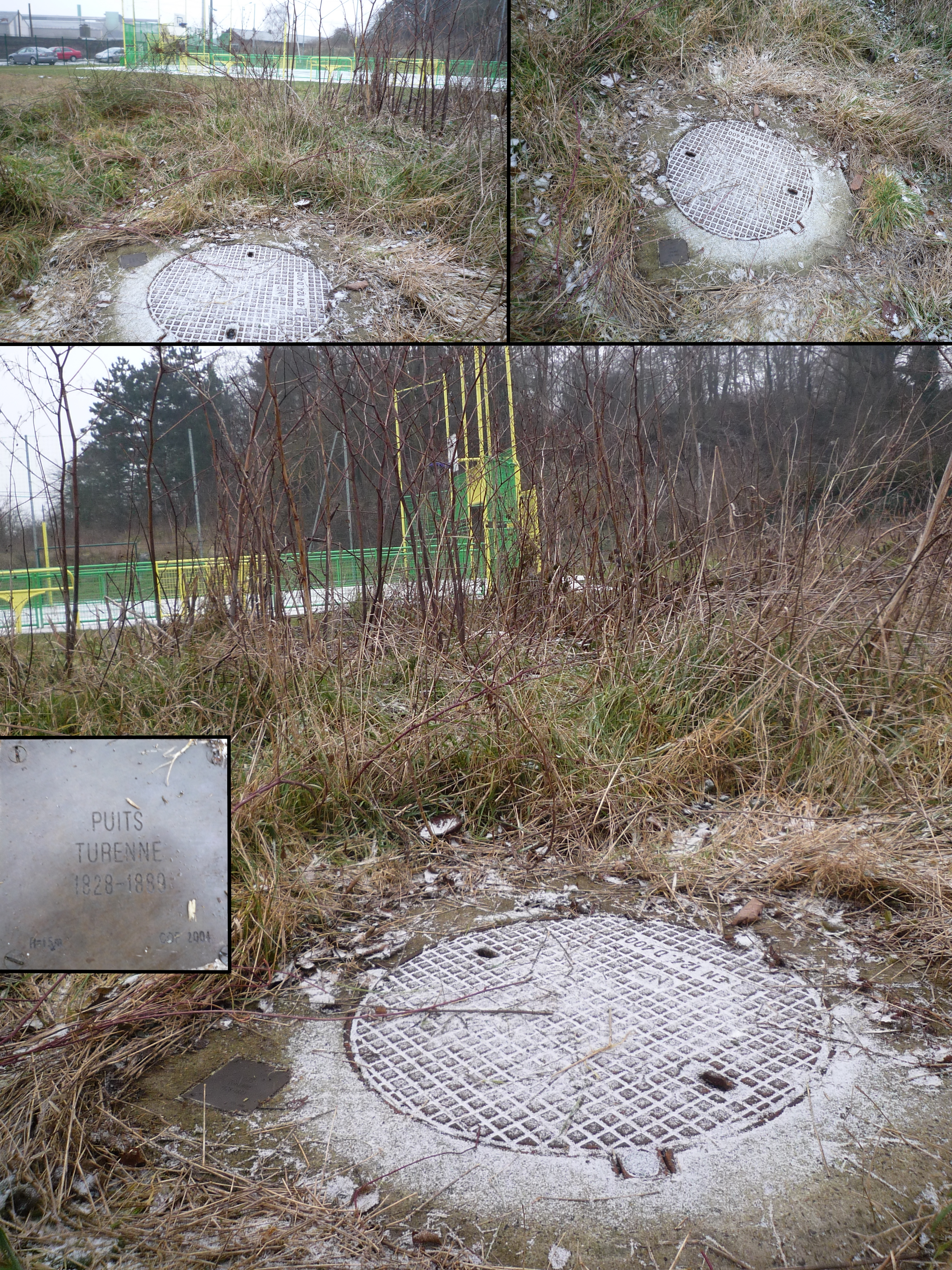 Pit Turenne, Compagnie des mines d'Anzin, Denain, Nord, Nord-Pas-de-Calais, France.